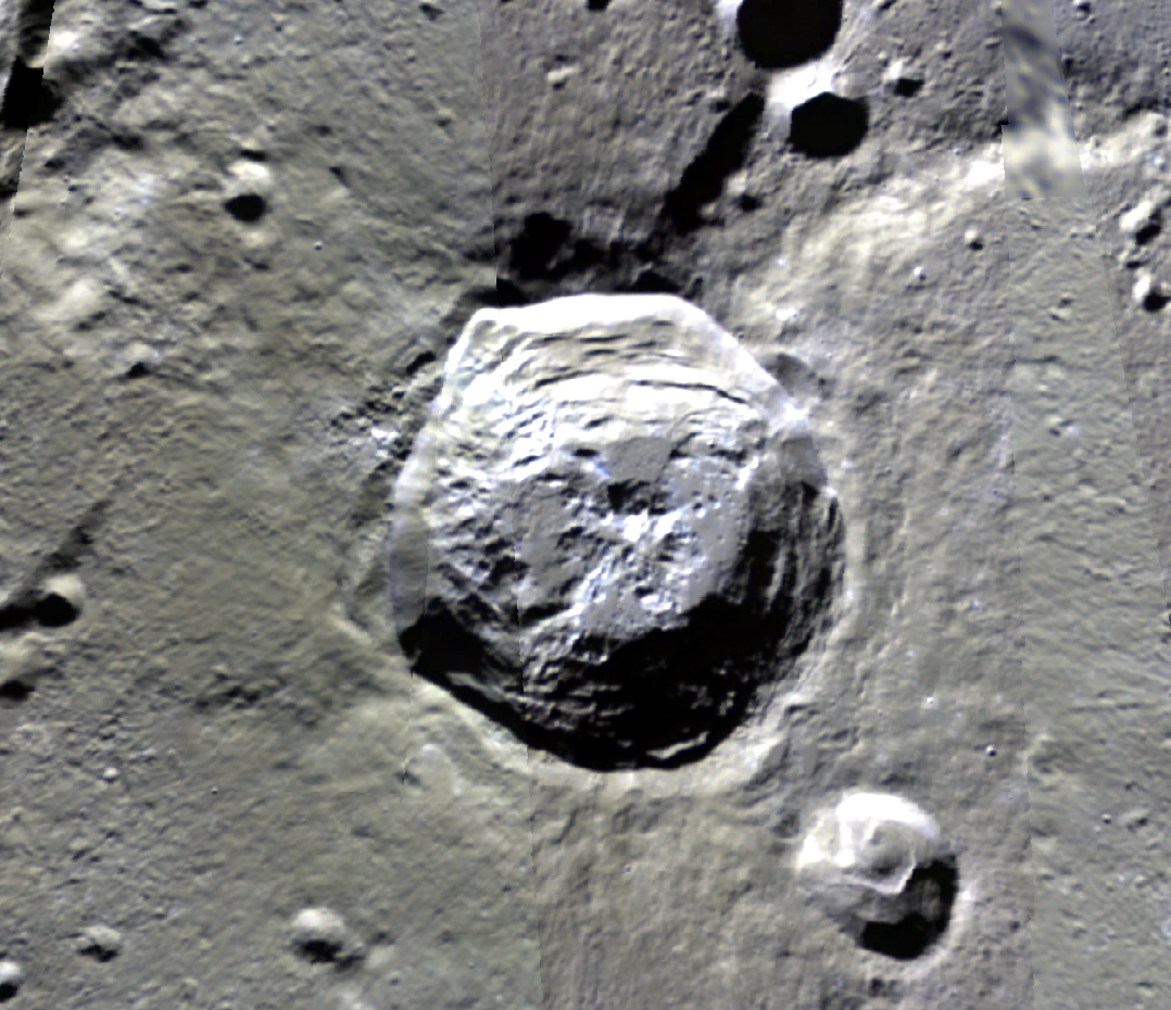 Anaxagoras crater in the north polar region of the Moon. Cropped version of computer generated image by PDS MAP-A-PLANET.